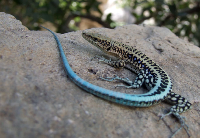 Apathya cappadocica urmiana in Band village (Orumieh, West Azarbaijan, Iran)